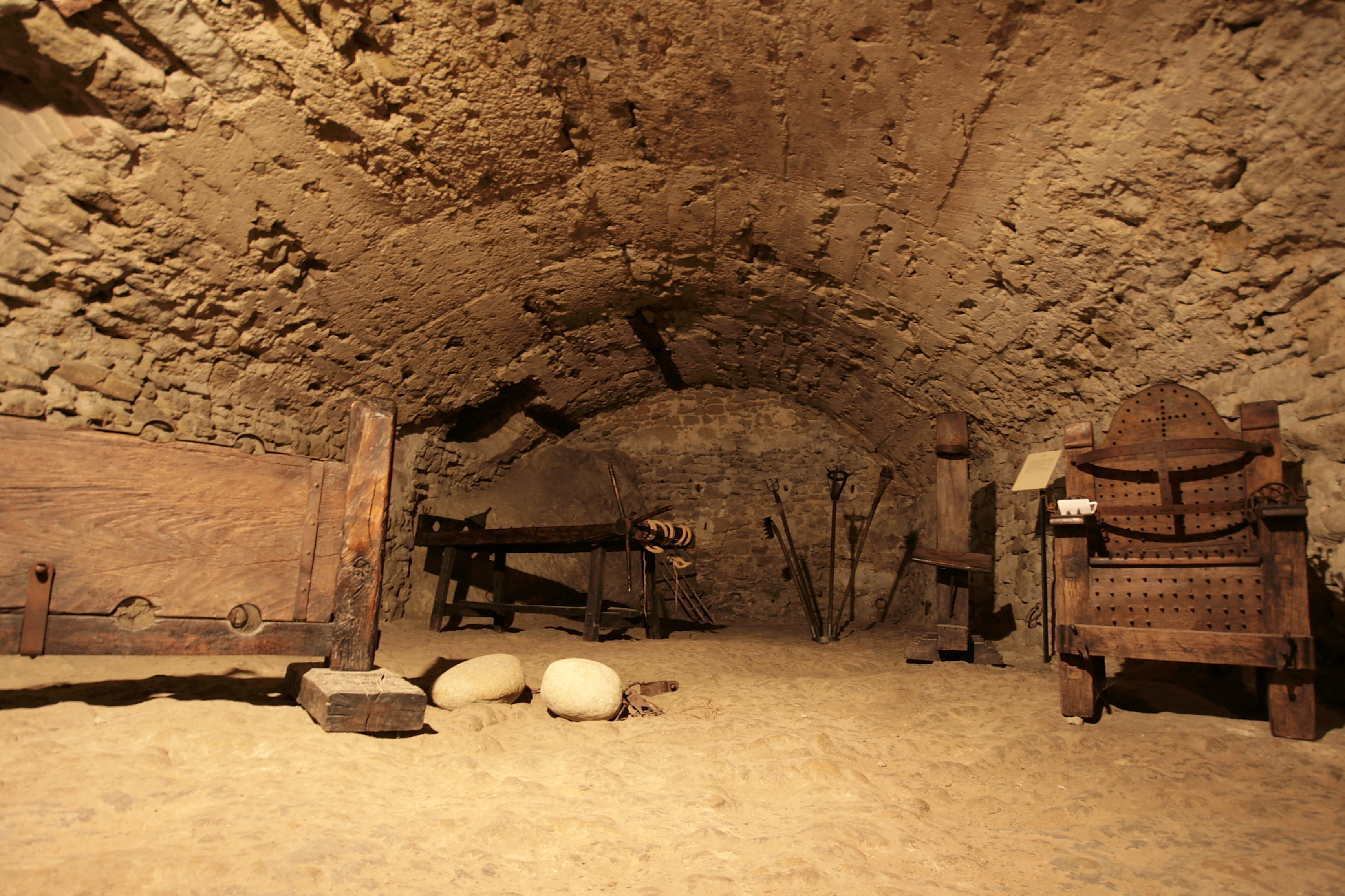 In San Leo there is an interesting castle, famous for having been the place where Cagliostro was trialed and imprisoned. Now it hosts a museum. In some rooms you can see some modern replicas of (mostly fanciful) torture "tools" like these shown in this photo. Canon 400d + Sigma 10-20@ 10mm 2s f/5,6 100ISO Tripod, no flash